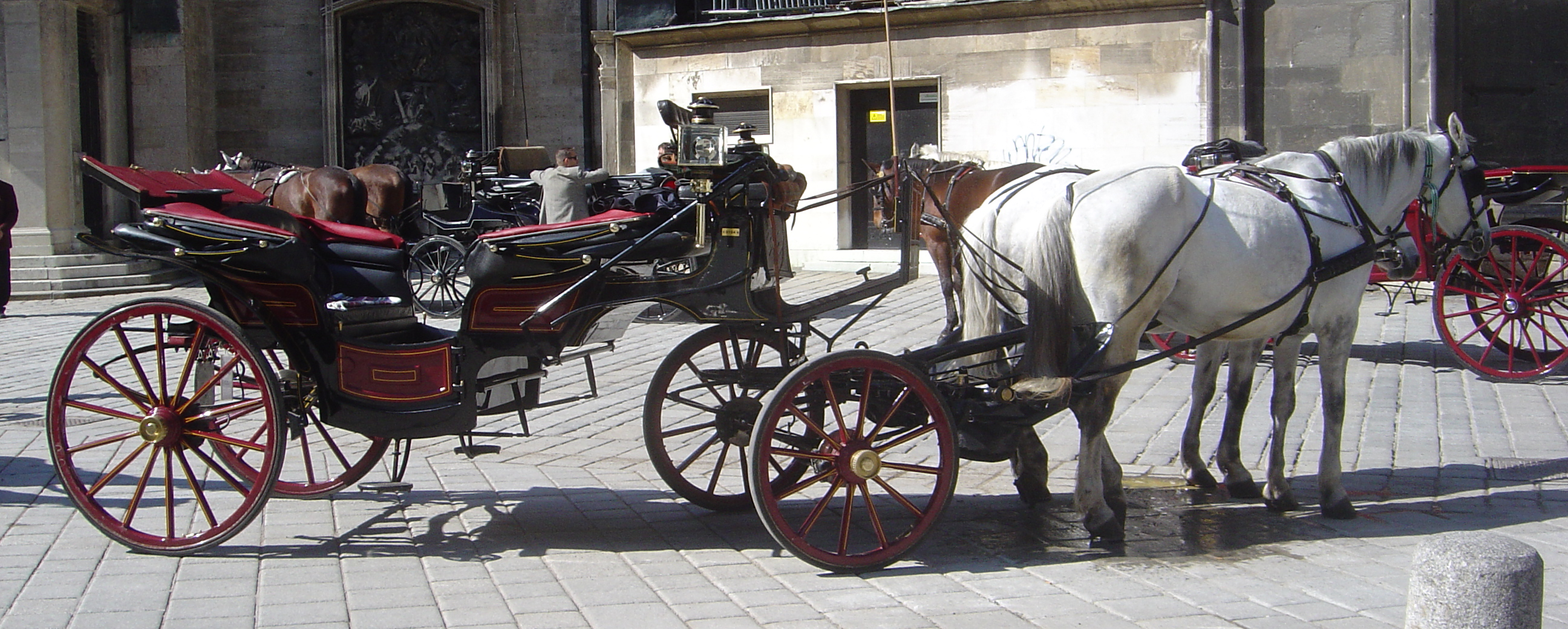 A fiaker in front of Stephansdom, Vienna, Austria